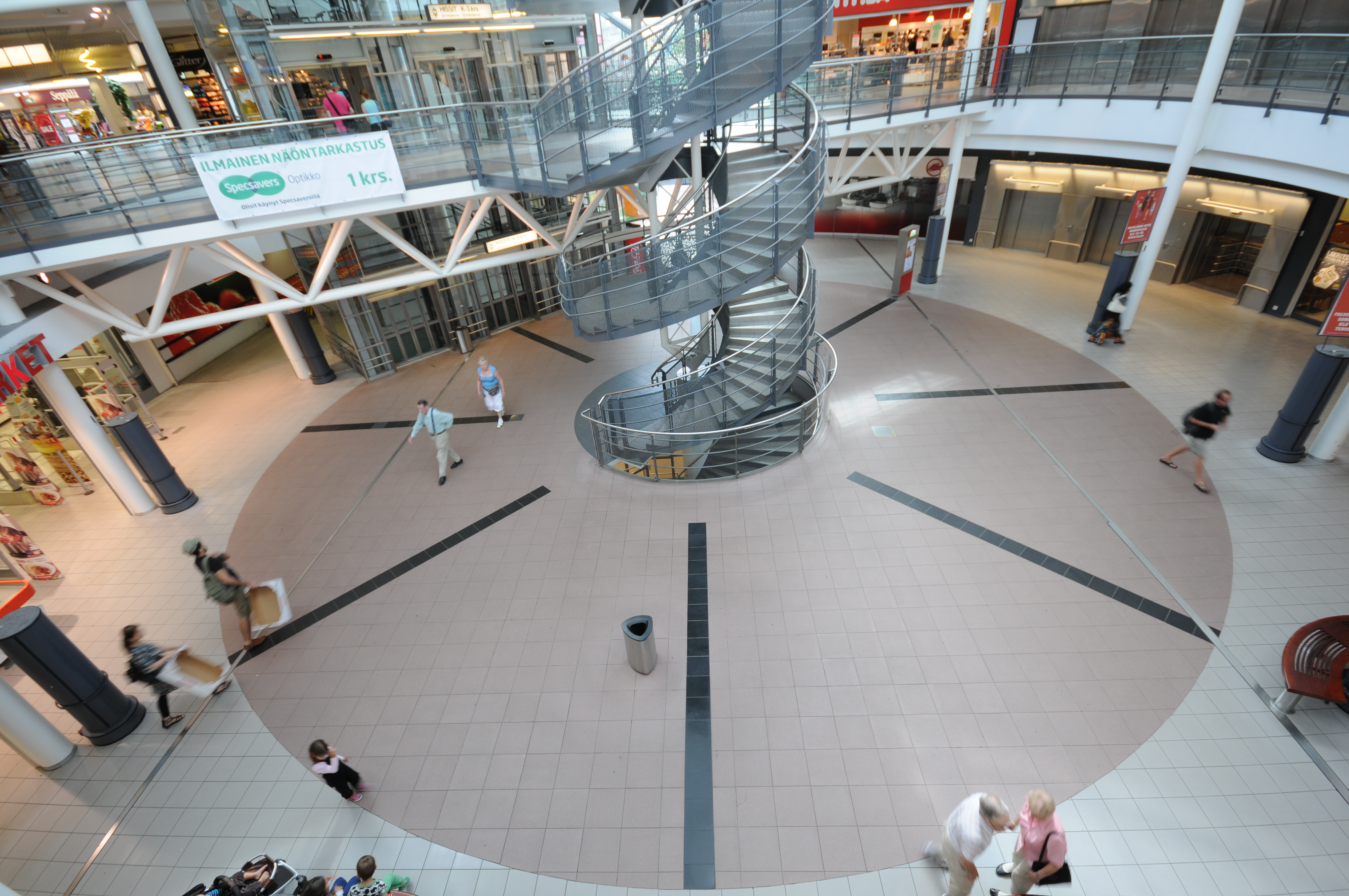 Interior of Myyrmanni shopping centre in Vantaa, Finland.